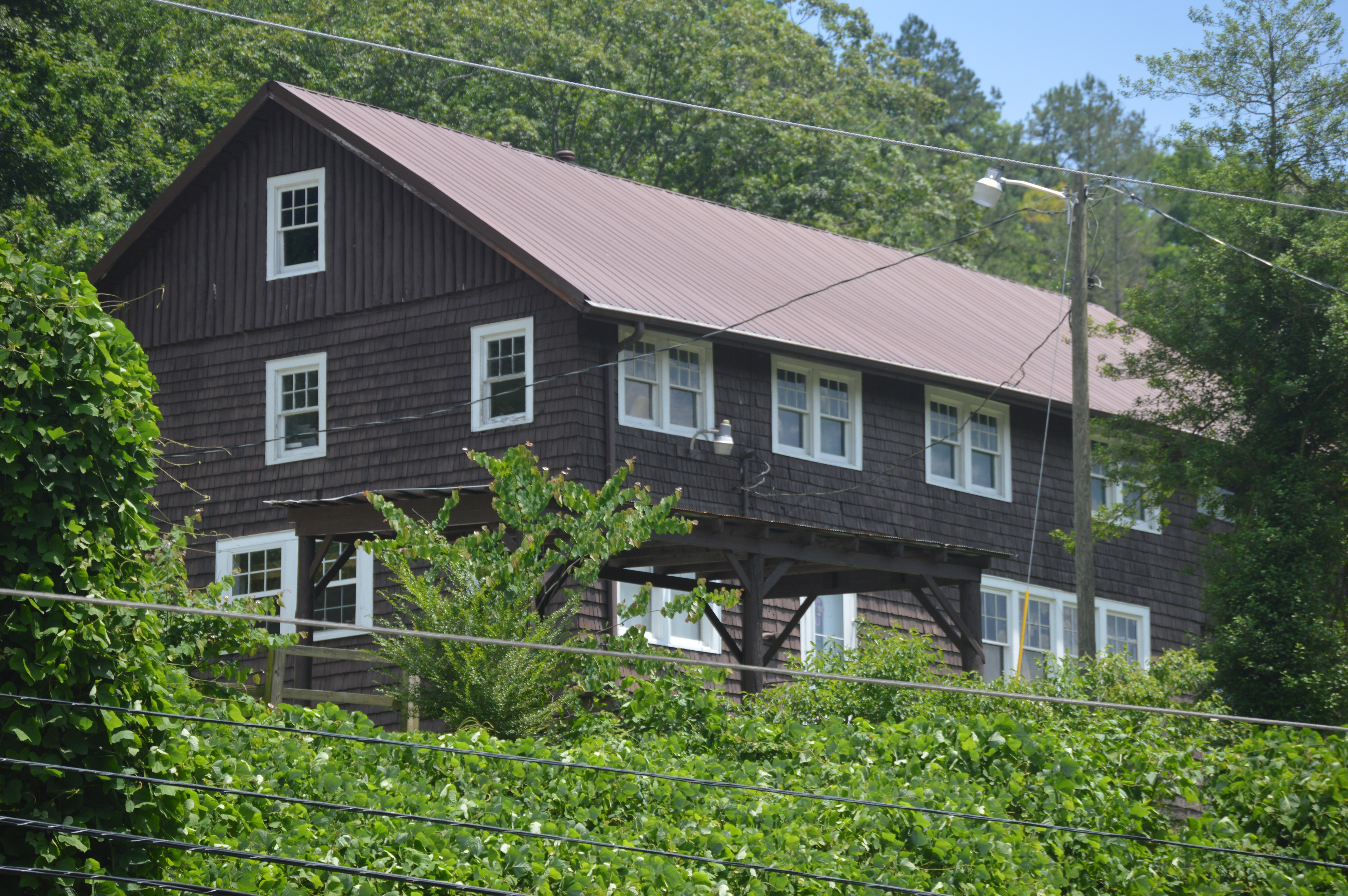 Front and northern end of the Wooton Presbyterian Center, located on Kentucky Route 80 at Wooton in Leslie County, Kentucky, United States. Built in 1919, it is listed on the National Register of Historic Places.